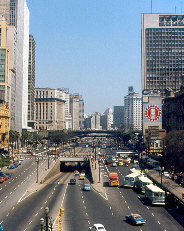 Anhangebau was regarded as the center of downtown Sao Paulo